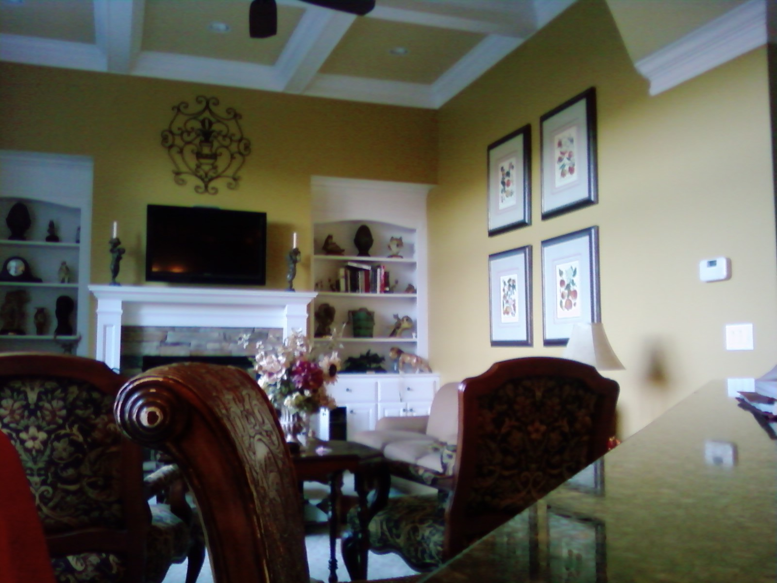 A sample shot with the LG Shine.